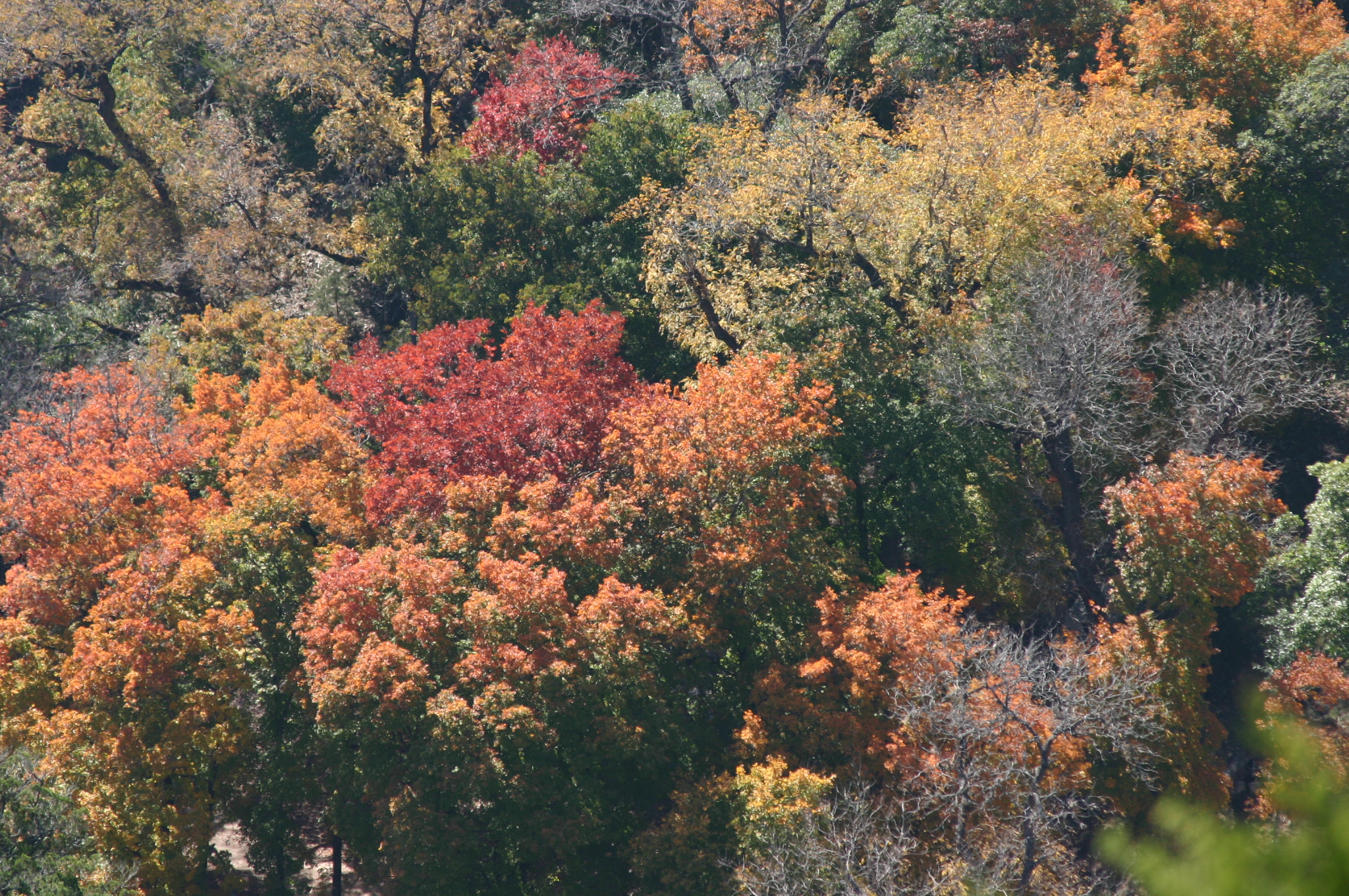 An aerial view of the colorful autumn forest